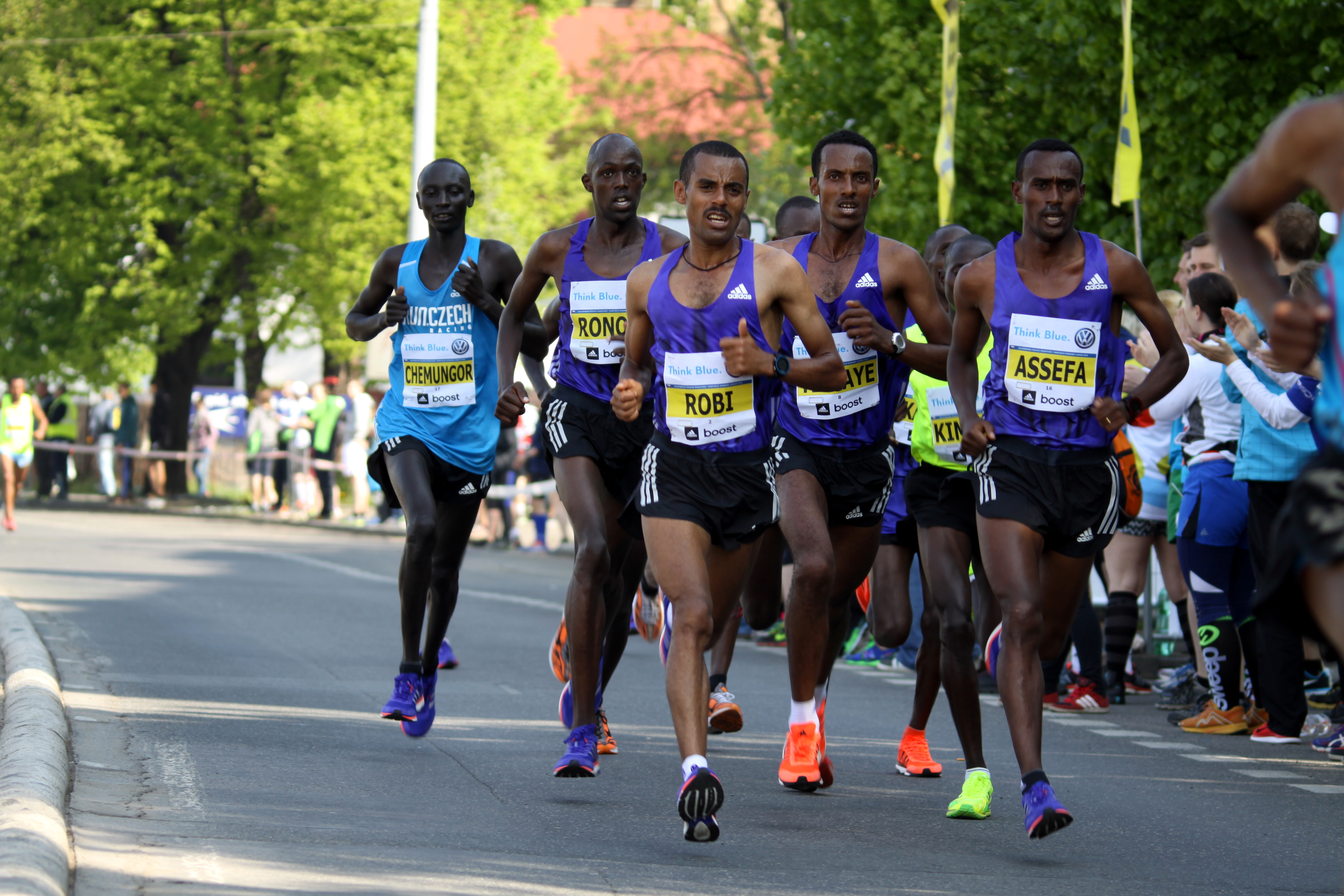 Prague International Marathon in 2015, Czech Republic